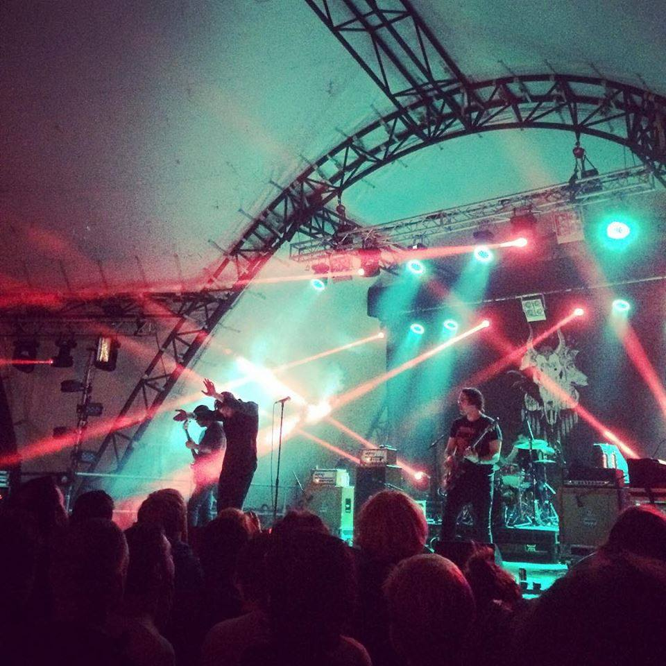 Deafheaven headling the Arc stage in 2015